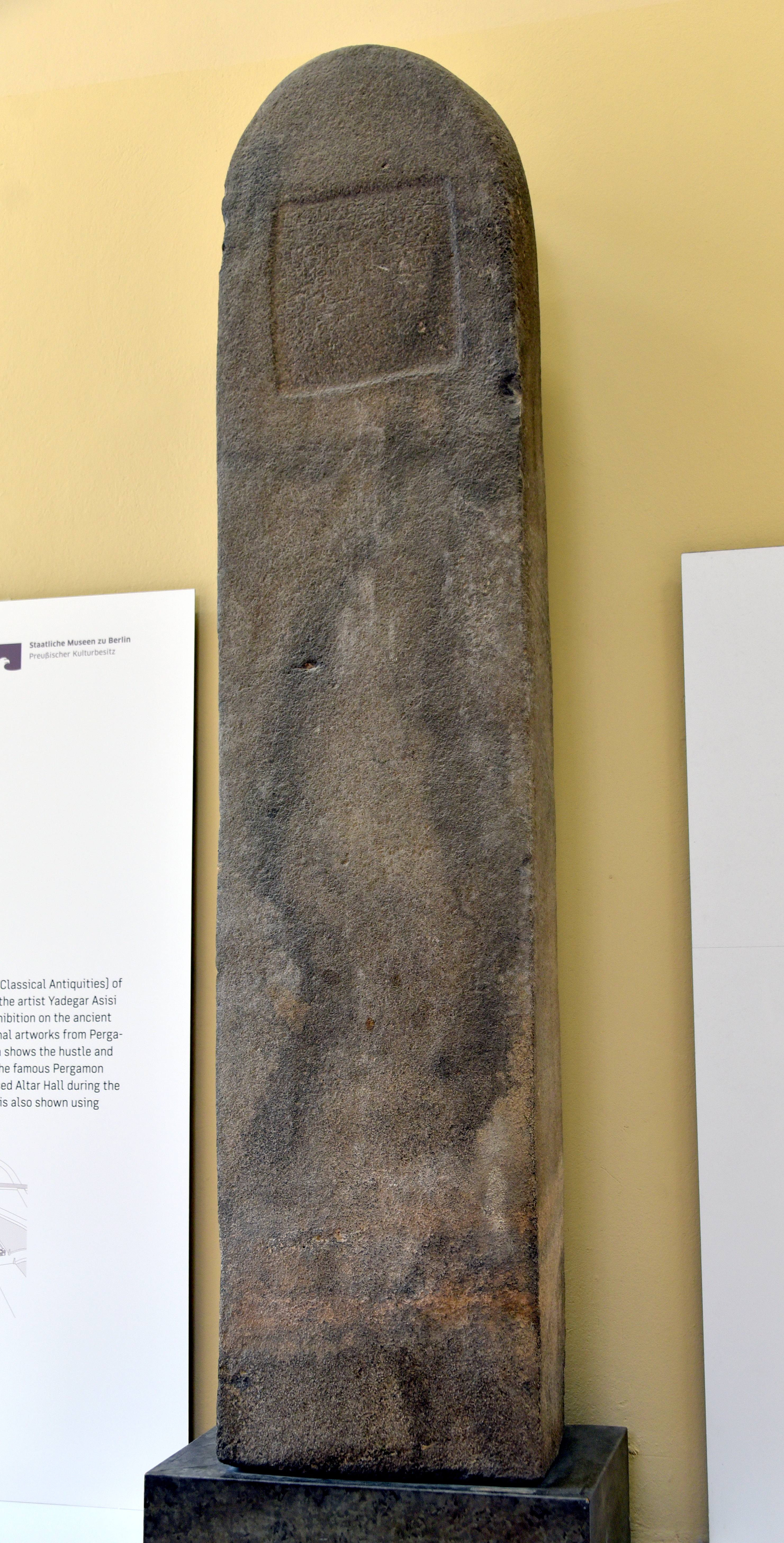 Basalt stele of Shar-pati-beli, the governor of the cities of Assur, Naṣibina (Nusaybin), Urakka, Kahat (Tell Barri), and Masaka. 831 BCE. From the Rows of Stelae (Stelenreihen) at Assur (Ashur), Iraq. Pergamon Museum, Berlin, Germany.